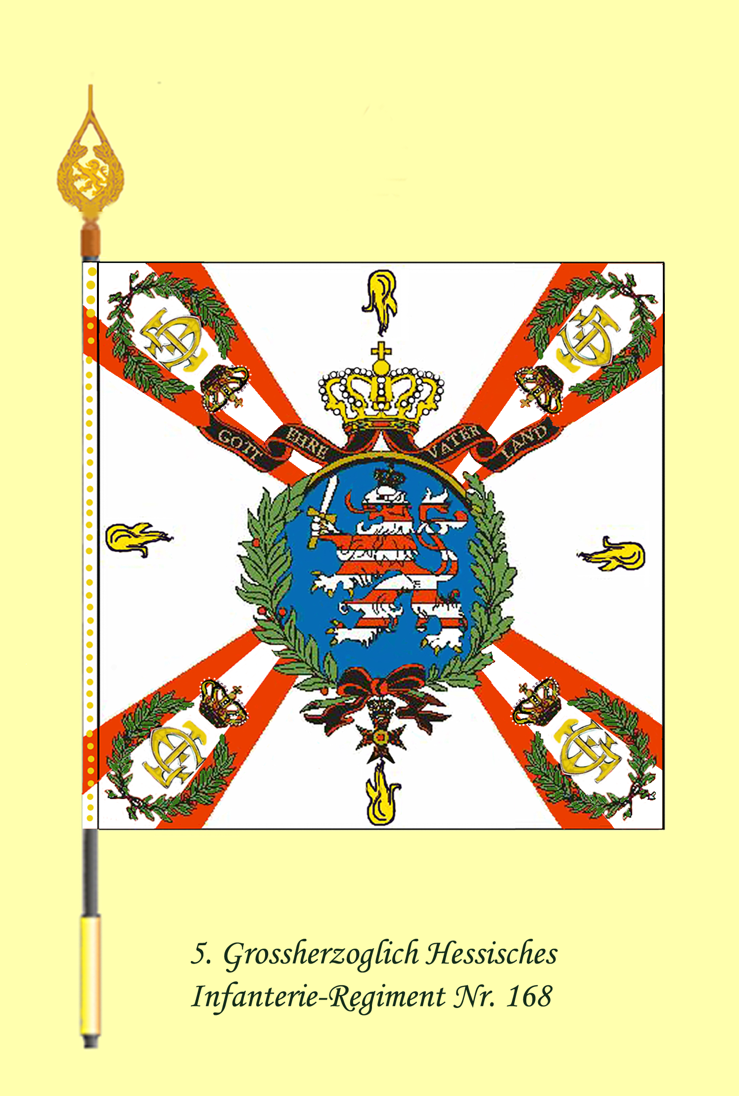 Colors of the Grand Duke of Hesse's 168th Regiment of Infantry in the prussian army